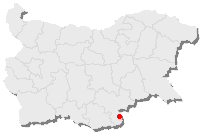 Map of Bulgaria, the red point is the position of Ivaylovgrad.